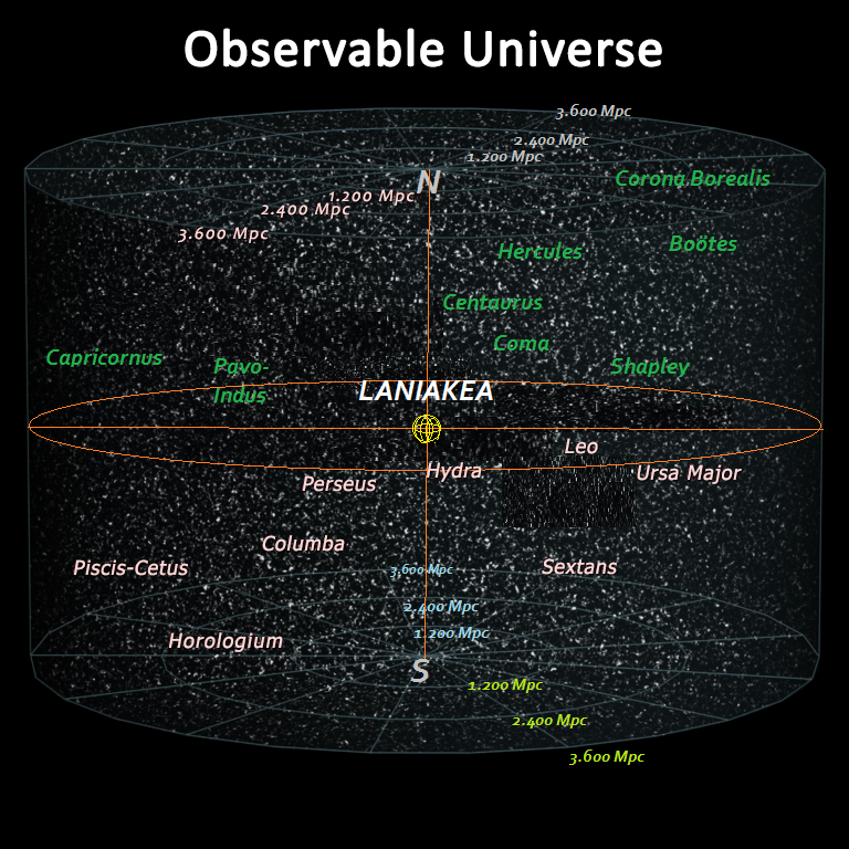 Laniakea Supercluster